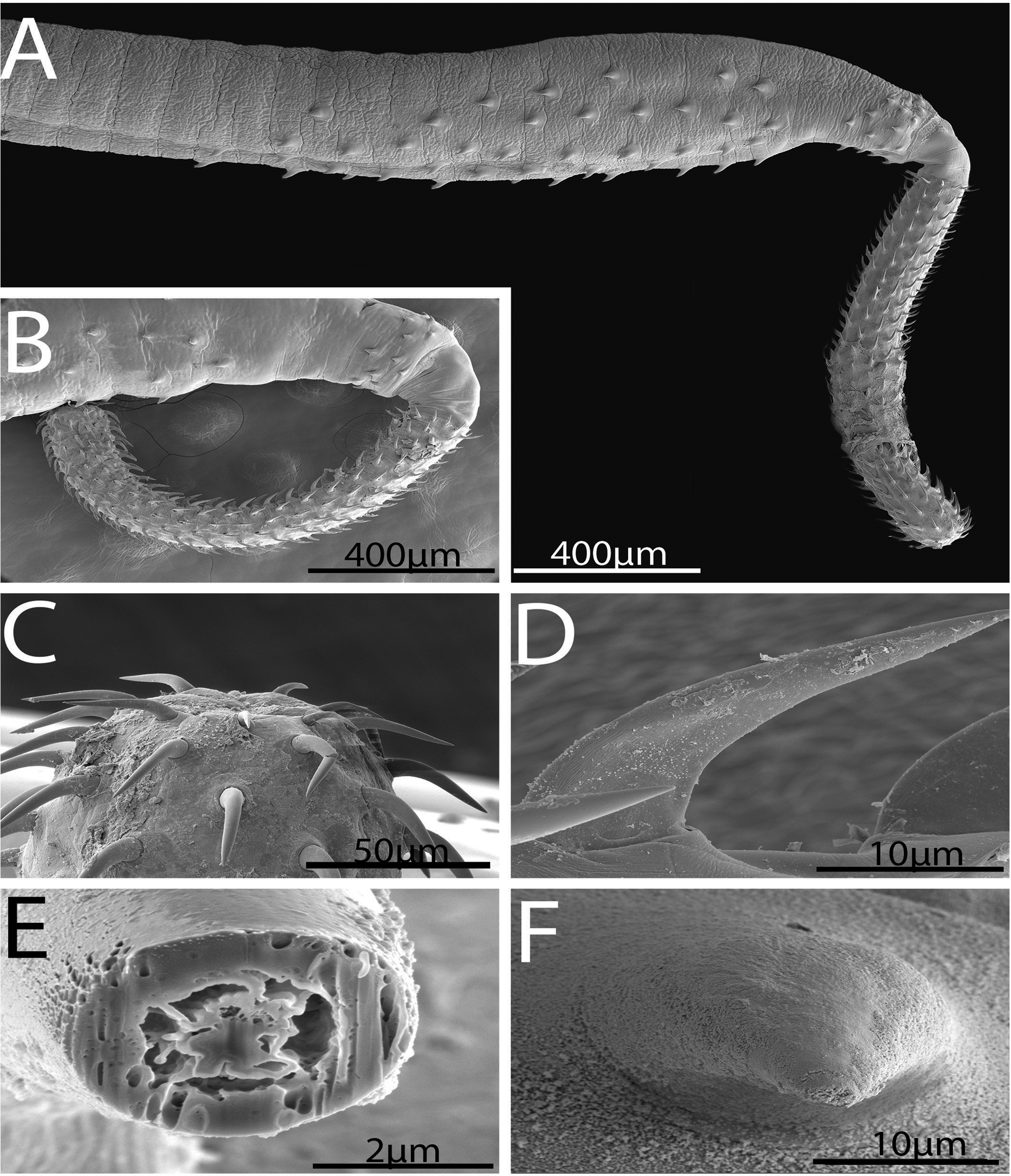 Figure 2 of paper. SEM image of specimens of Rhadinorhynchus oligospinosus Amin & Heckman, 2017 from Scomber japonicus and Trachurus murphyi from off the Pacific coast of Peru. (A) A profile of the anterior part of a male specimen showing the neck and proboscis curvature and the distribution of trunk spines. (B) The proboscis and curved neck of another specimen. (C) The anterior end of a proboscis showing the minute size of the apical hooks compared to subapical hooks. (D) A typical hook at mid-proboscis showing its curvature and its thickness at base. (E) A gallium cut section of a proboscis hook showing its thick cortical layer and partially vacuolated center. (F) A basal view of a trunk spine showing its broad base.